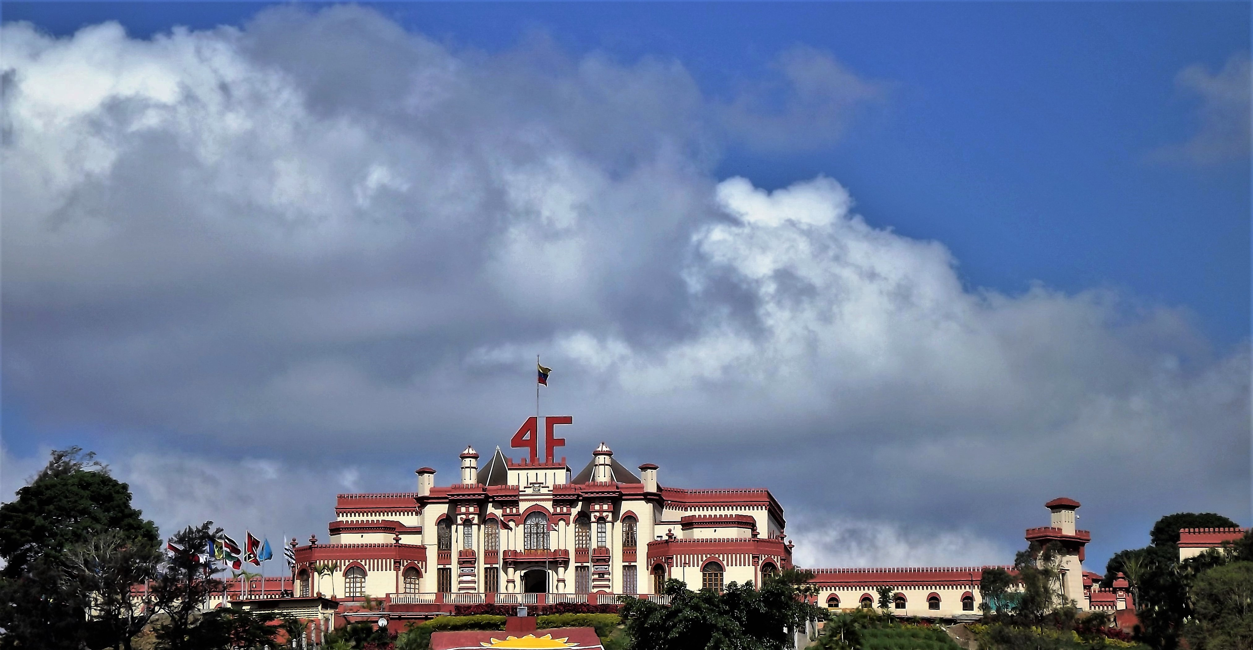 Originally Cuartel Cipriano Castro, it was inaugurated on May 23, 1907. General Juan Vicente Gómez made it the headquarters of the Military Academy on July 5, 1910